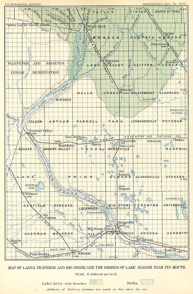 Map of the southern outlet Lake Agassiz in the US states of Minnesota, North Dakota, and South Dakota in central North America, showing the lake’s outlet through the Traverse Gap at Browns Valley, Minnesota. First published in 1895 by the US Geological Survey and republished in Upham, Warren (1896/2002). "The Glacial Lake Agassiz". Monographs of the United States Geological Survey XXV. United States Geological Survey/University of North Dakota. Retrieved on 2009-06-27.